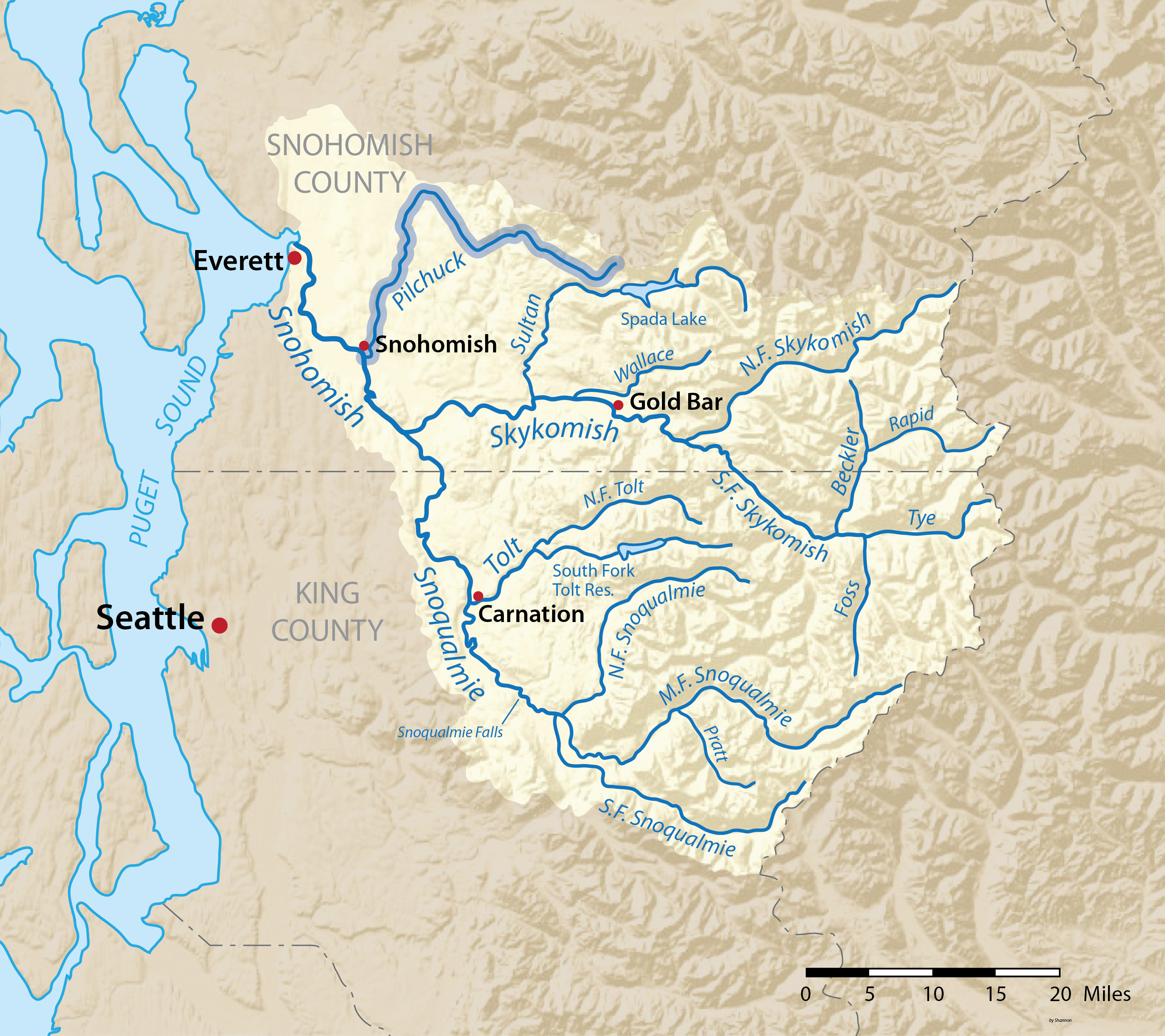 Map of the Snohomish River watershed in Washington, USA with the Pilchuck River highlighted. Made using USGS National Map data. Replacement for File:Pilchuckrivermap.jpg.